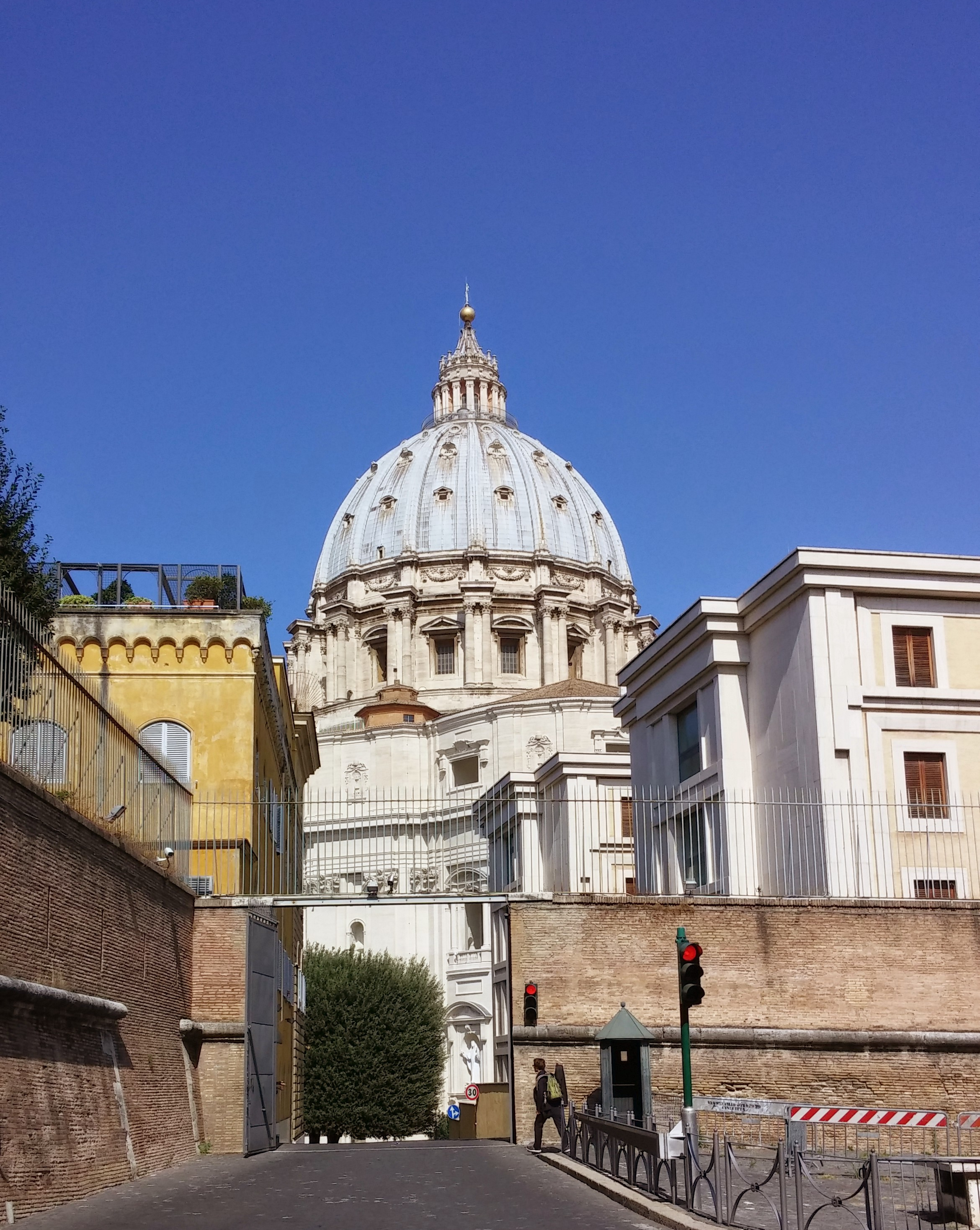 View from Italian territory through the Perugino gate into Vatican City. Left building: Palazzo San Carlo, Center: Saint Peter's basilica, right: Domus Sanctae Marthae.